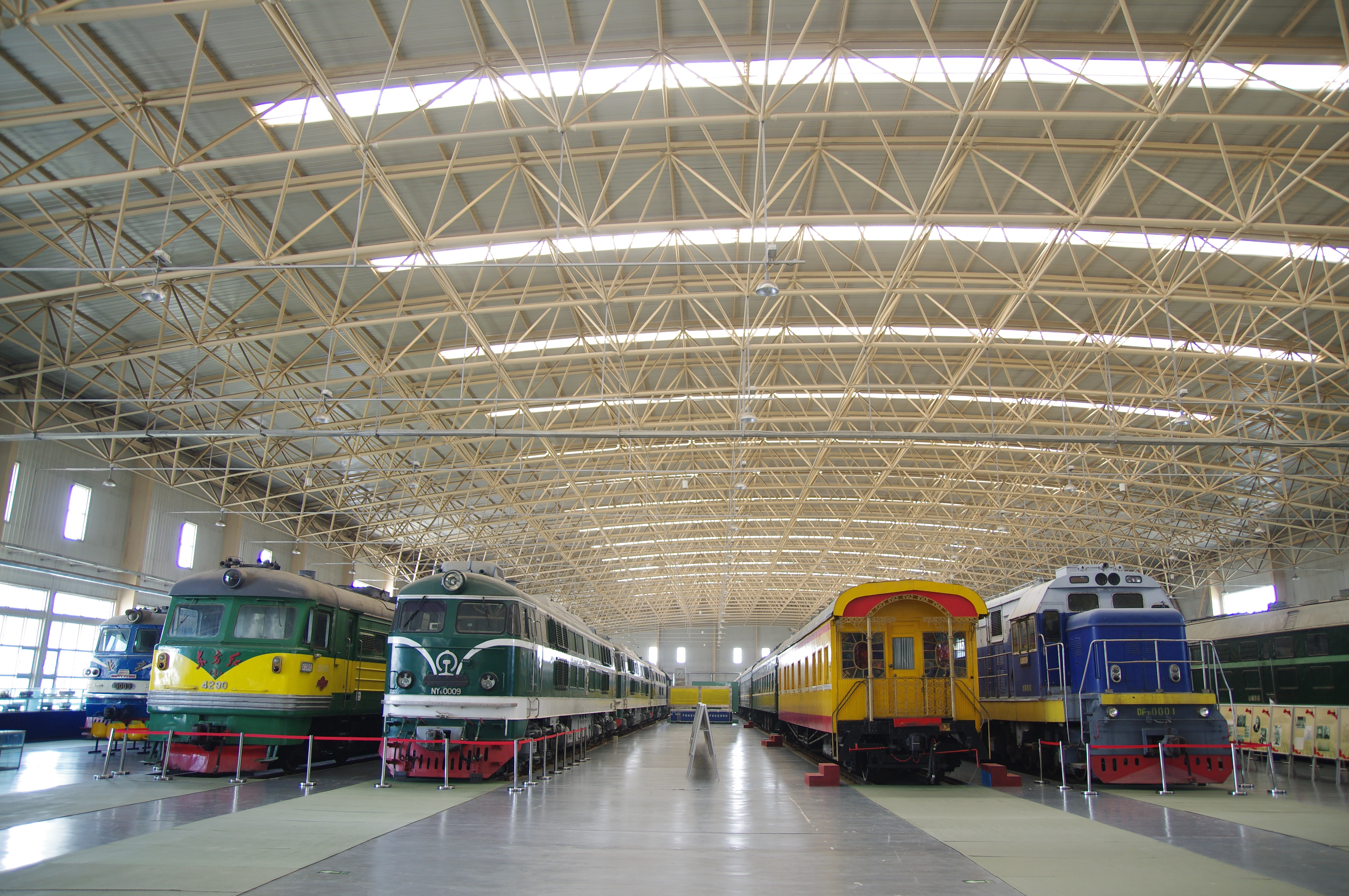 China Railway Museum 中国铁道博物馆